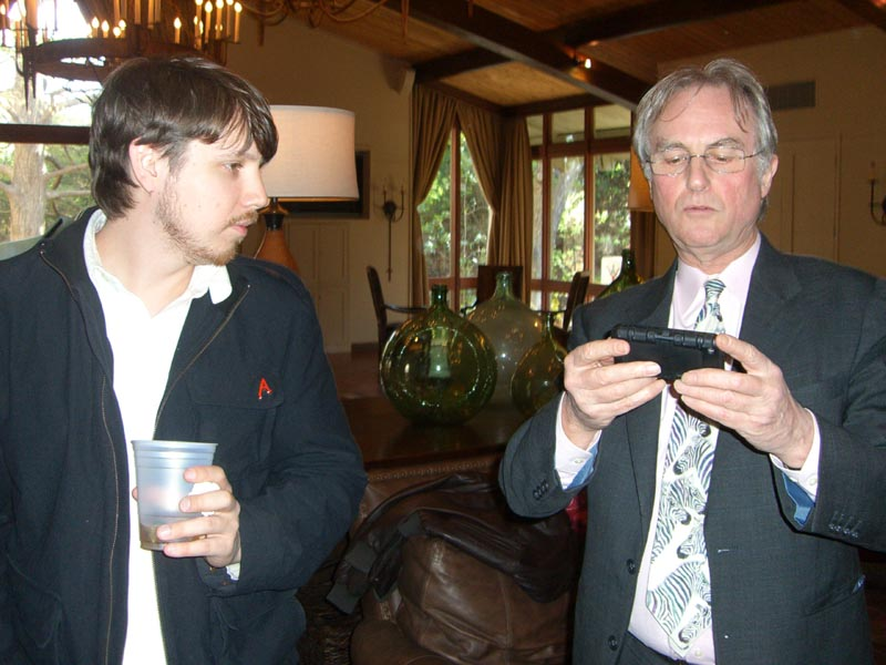 Josh Timonen (Dawkins' technical aide), and Richard Dawkins (with his iPhone) at the University of Texas at Austin. "Dawkins is hip on technology! He spent a big part of the reception working on his iPhone. He was actually looking up something -- Texas Bill of Rights. He then spent some time working on his laptop, apparently making last minute changes to his presentation." (see source page on Flickr for more)